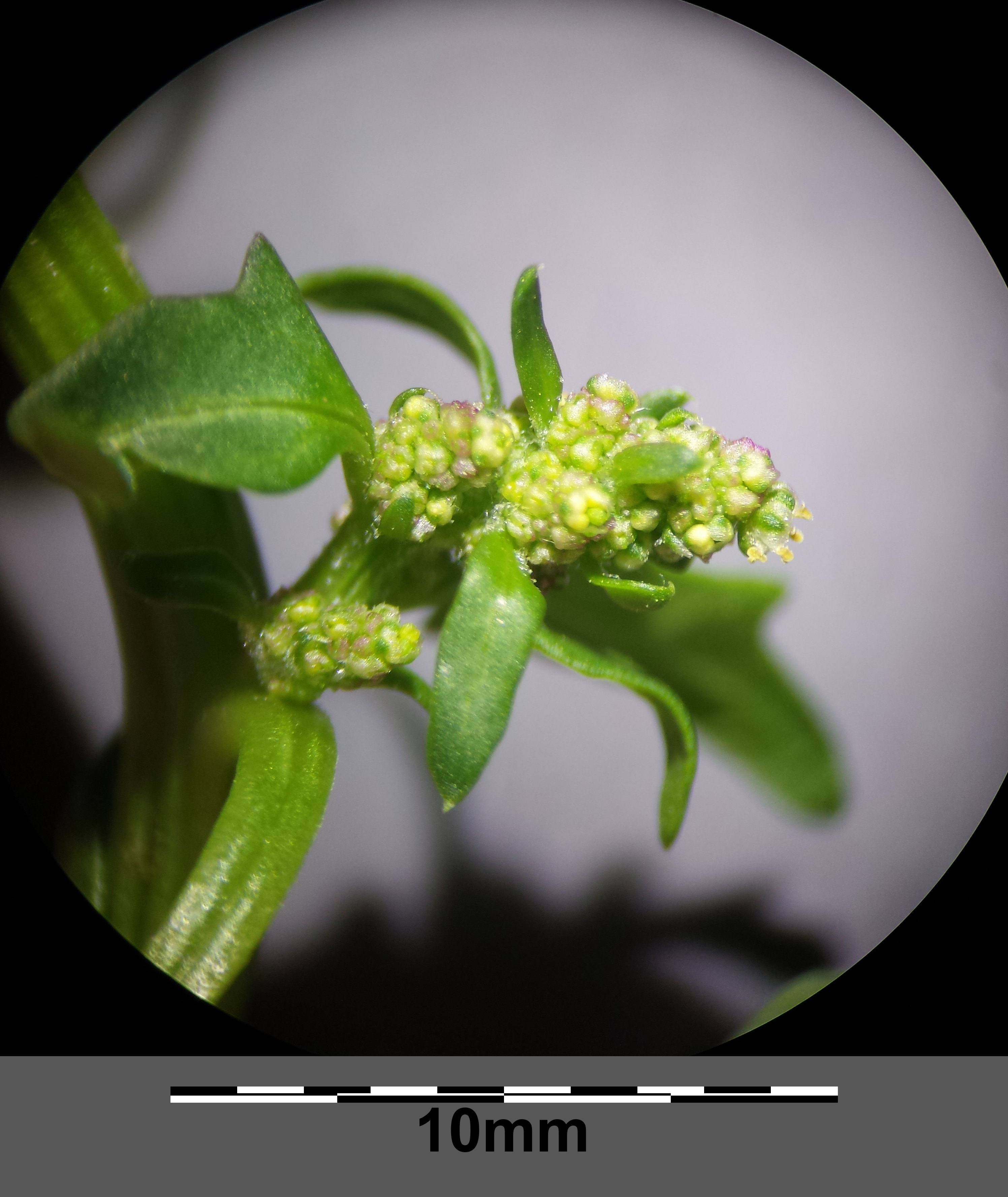 Inflorescence Taxonym: Chenopodium rubrum ss Fischer et al. EfÖLS 2008 ISBN 978-3-85474-187-9 Location: Žárský rybník, Jihočeský kraj, Czech Republic - ca. 500 m a.s.l. Habitat: dungheap